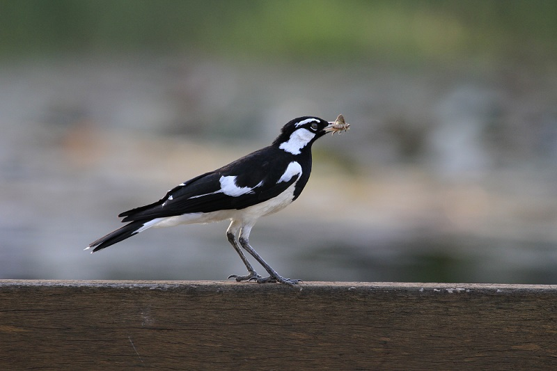 Magpie Lark (Pee Wee) with moth - Durack Lakes - Palmerston - Northern Territory - Australia